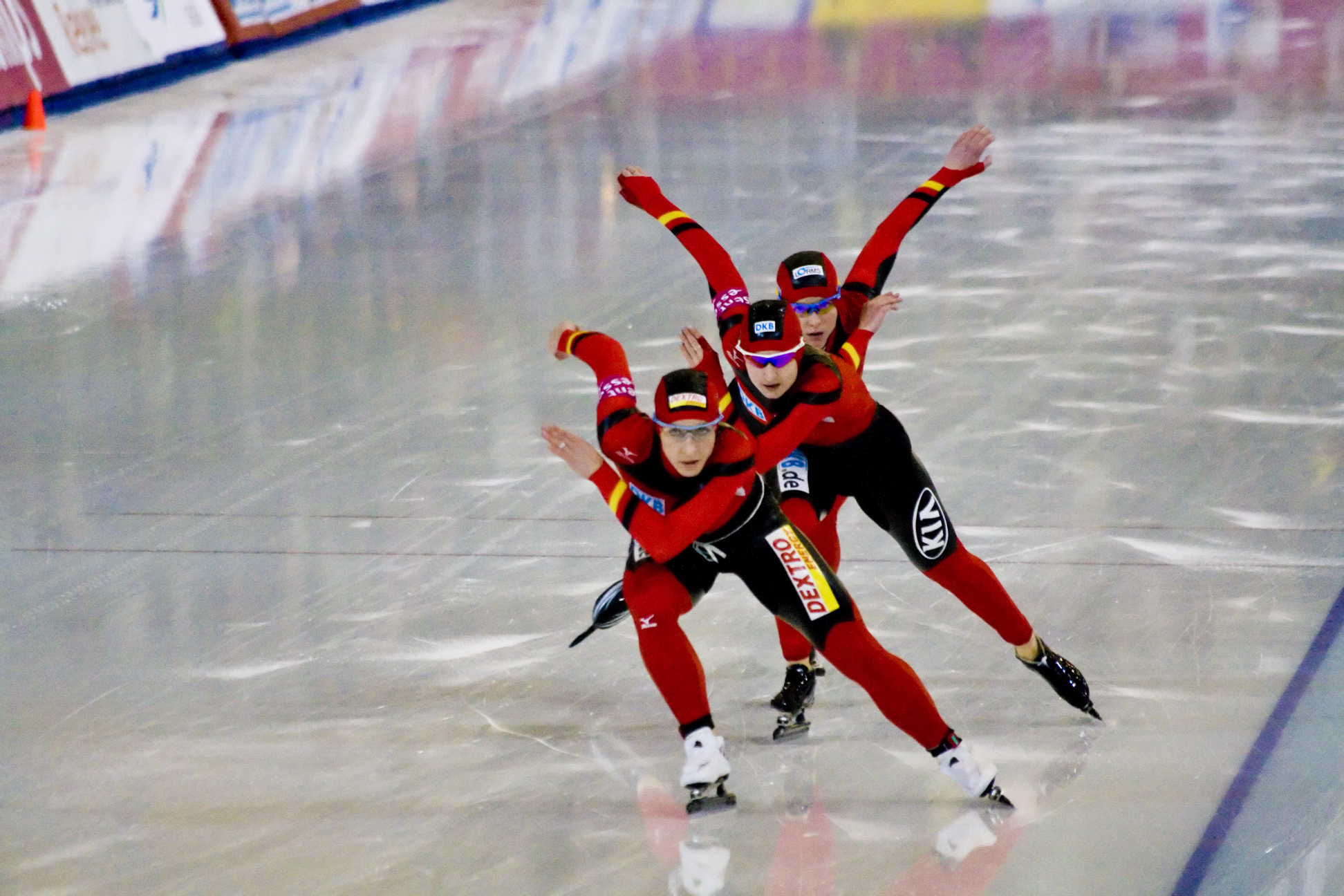 Team Germany Team Pursuit